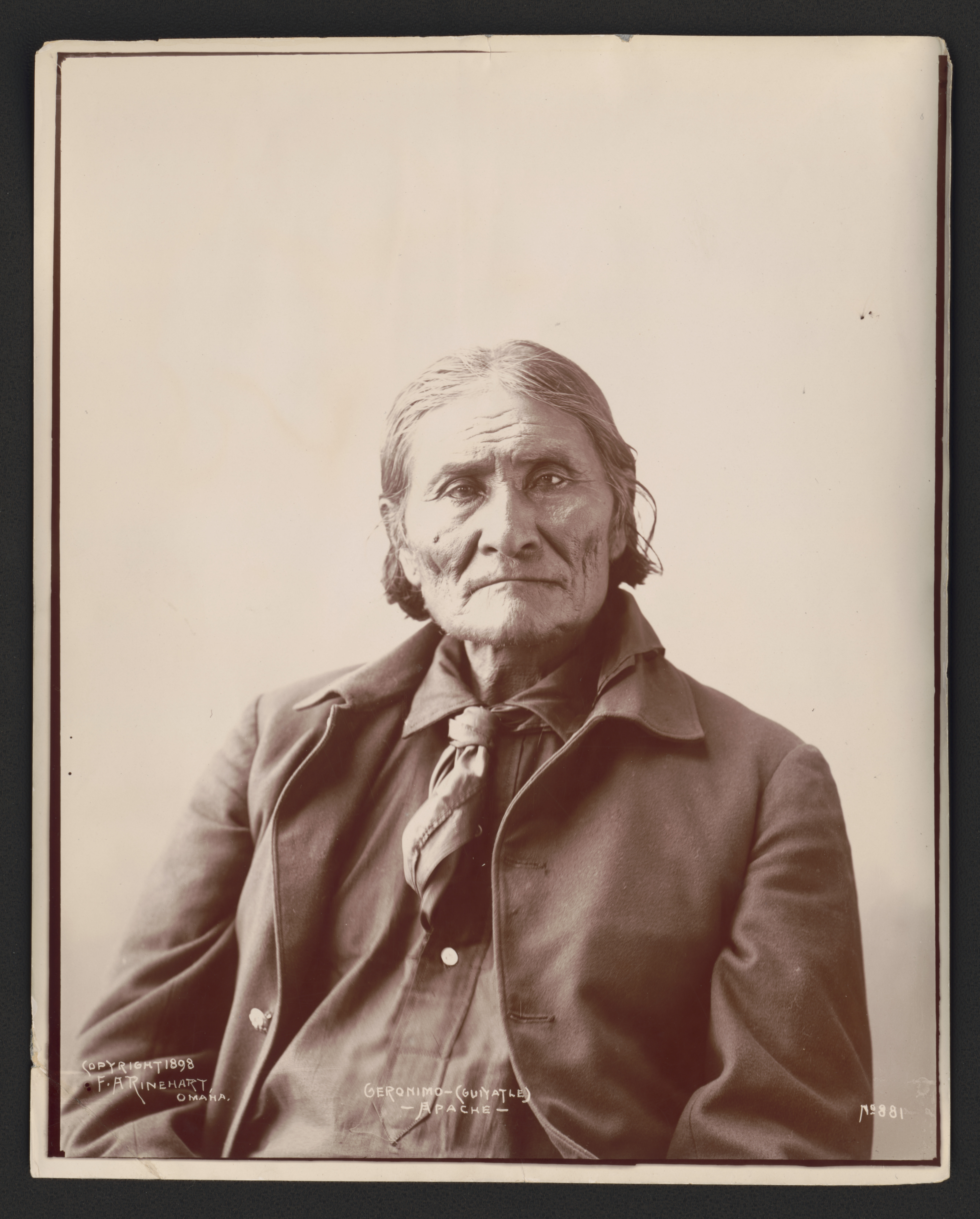 Portrait of Geronimo (Guiyatle), Apache.